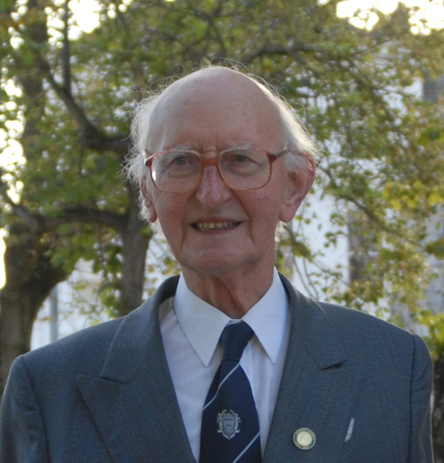 photo by author (Coolavokig), own work, taken with permission of subject.